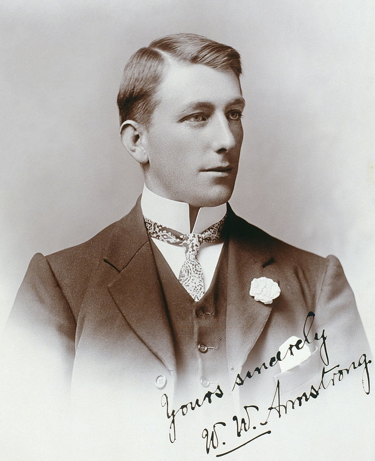 Australian cricketer Warwick Windridge Armstrong (1879 - 1947), 1902.